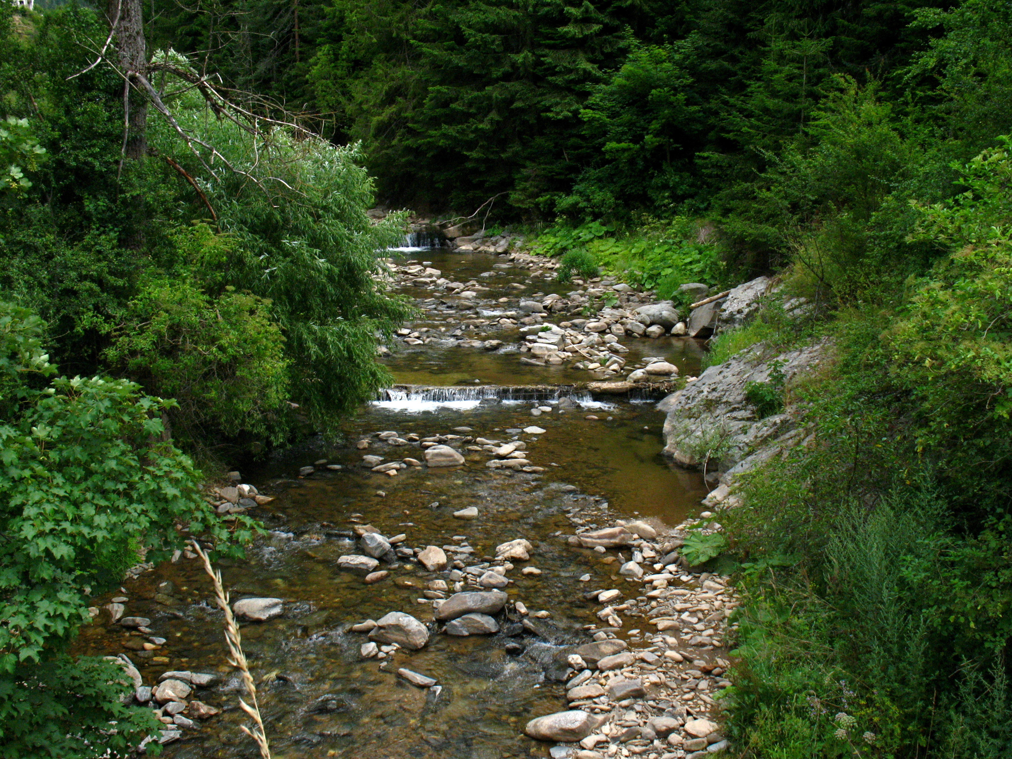 Shirokolushka River (Shiroka Luka).